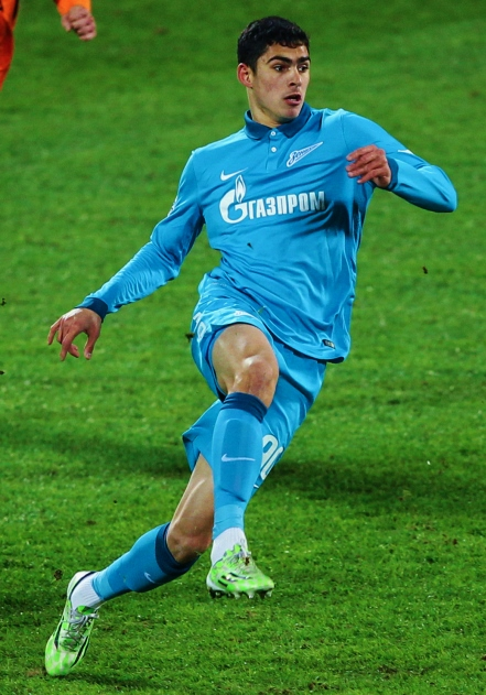 Ramil Sheydayev